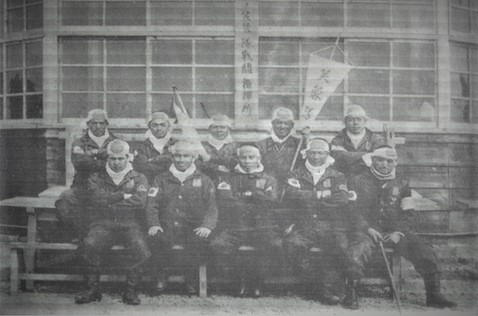 Commemorative photo of Fuyo scordon officer at Fujieda base